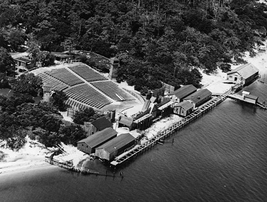 Fort Raleigh National Historic Site, Manteo vicinity, Dare County, NC. Aerial view of Waterside Theatre, stage, production and storage sheds. 35°56′21″N 75°42′33″W / 35.93917°N 75.70917°W